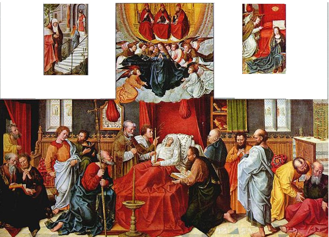 This image is available from the Netherlands Institute for Art Historyunder digital ID 46620. This tag does not indicate the copyright status of the attached work. A normal copyright tag is still required. See Commons:Licensing.